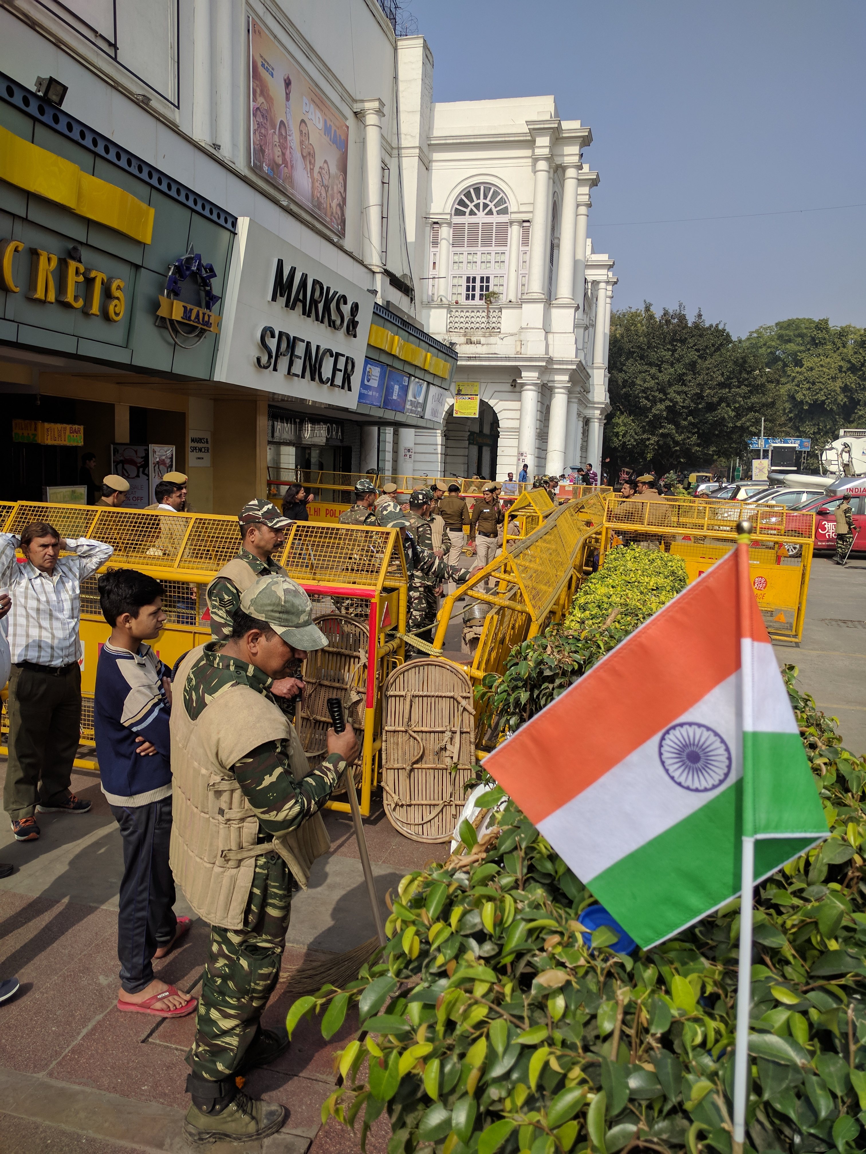 Heavy police presence outside PVR Plaza, Connaught Place, New Delhi. This photograph was taken just after the first show on the first day for Padmavat.